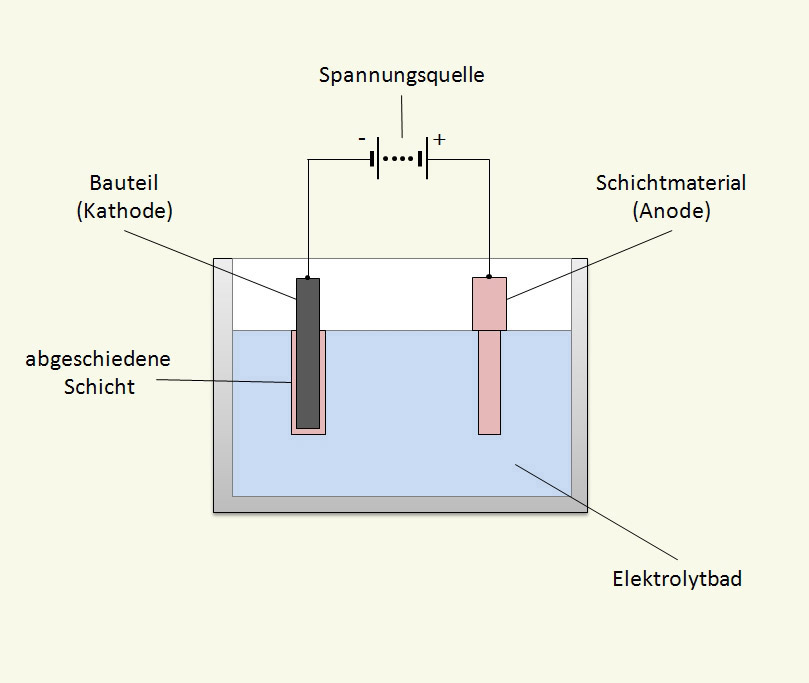 Galvanic techniques (or electroplating) describe the electrochemical precipitation of metallic layers onto metals or plastics.